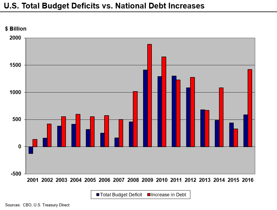 U.S. Total Deficits vs. National Debt Increases 2001-2010 Source data The source data for the file is the CBO Historical tables (deficits) and U.S. Treasury Direct (debt). For 2015, the deficit data is from the CBO Monthly Budget Review. CBO Historical Tables U.S. Treasury Direct